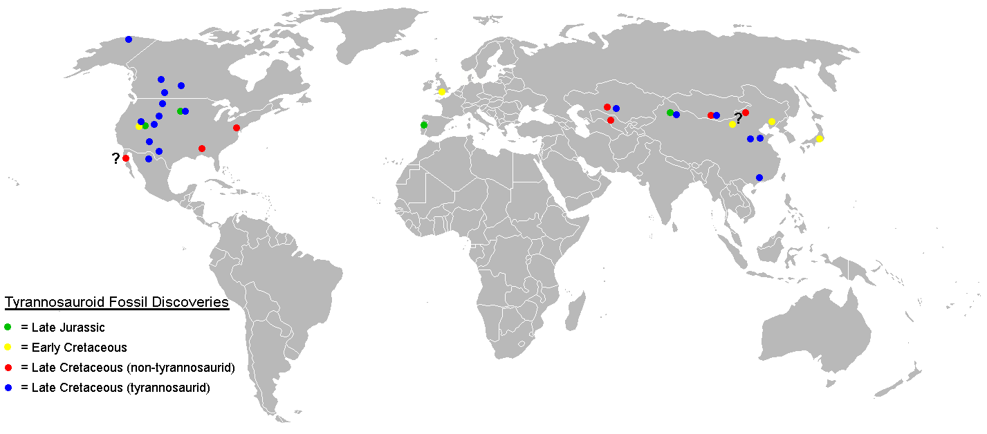 Map of tyrannosauroid fossil localities as of December 2007. I used the blank political map of the world commonly used on Wikipedia ((BlankMap-World.png). Keep in mind that the land masses would not have been in the same places they are today in the Jurassic and Cretaceous periods.